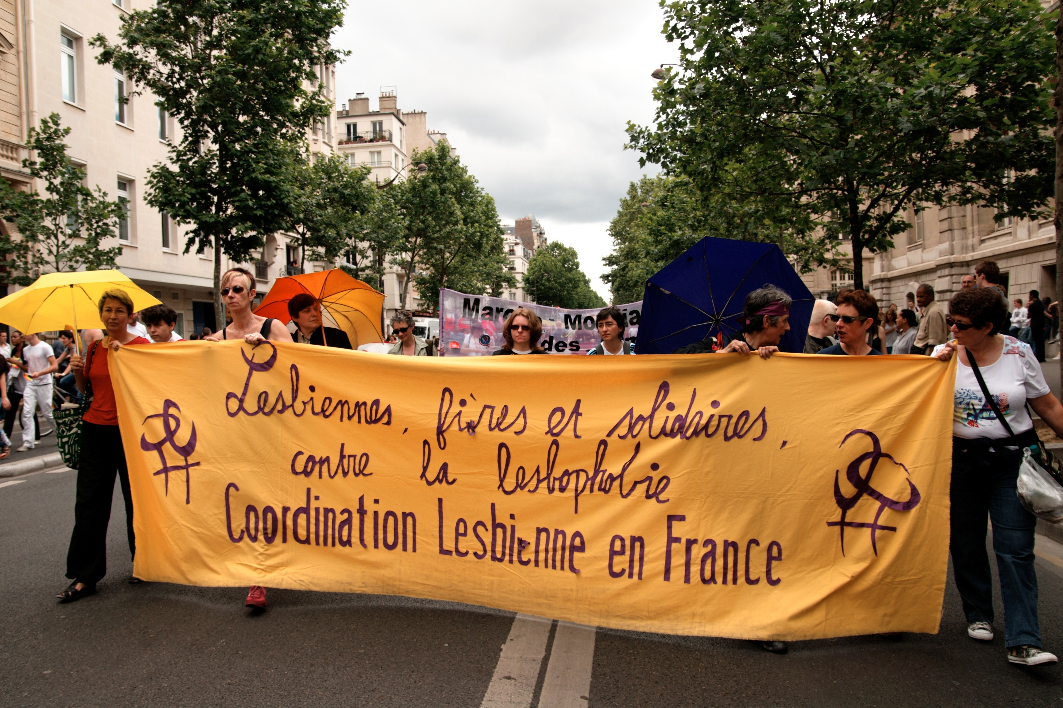 Banner of a lesbian movement at the 2008 Gay Pride in Paris.